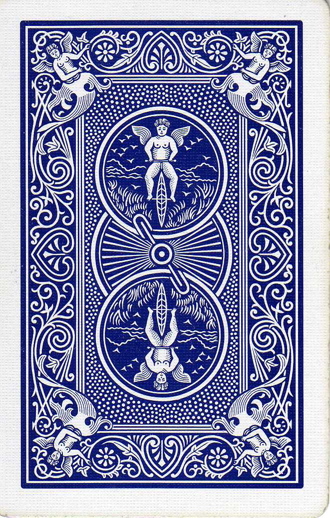 Back side of Bicycle Bridge size playing cards